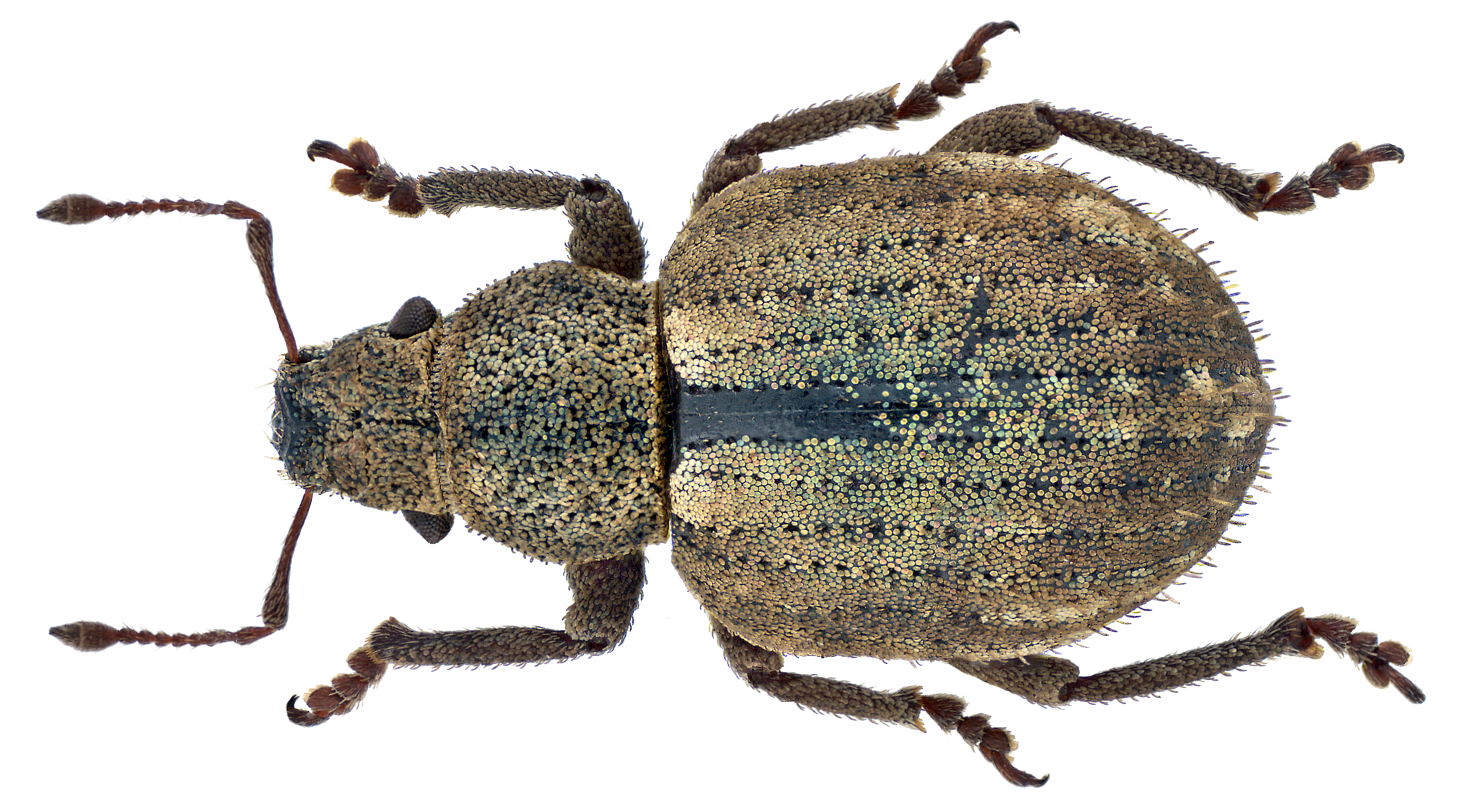 Family: Curculionidae Size: 5,5 mm (4-5,5 mm) Origin: Europe Ecology: Larvae on roots of Rumex obtusifolius, Imago on deciduous trees and conifers Location: Germany, Bavaria, Upper Franconia, Kulmbach leg.det. U.Schmidt, 24.V.1996 Photo: U.Schmidt, 2013